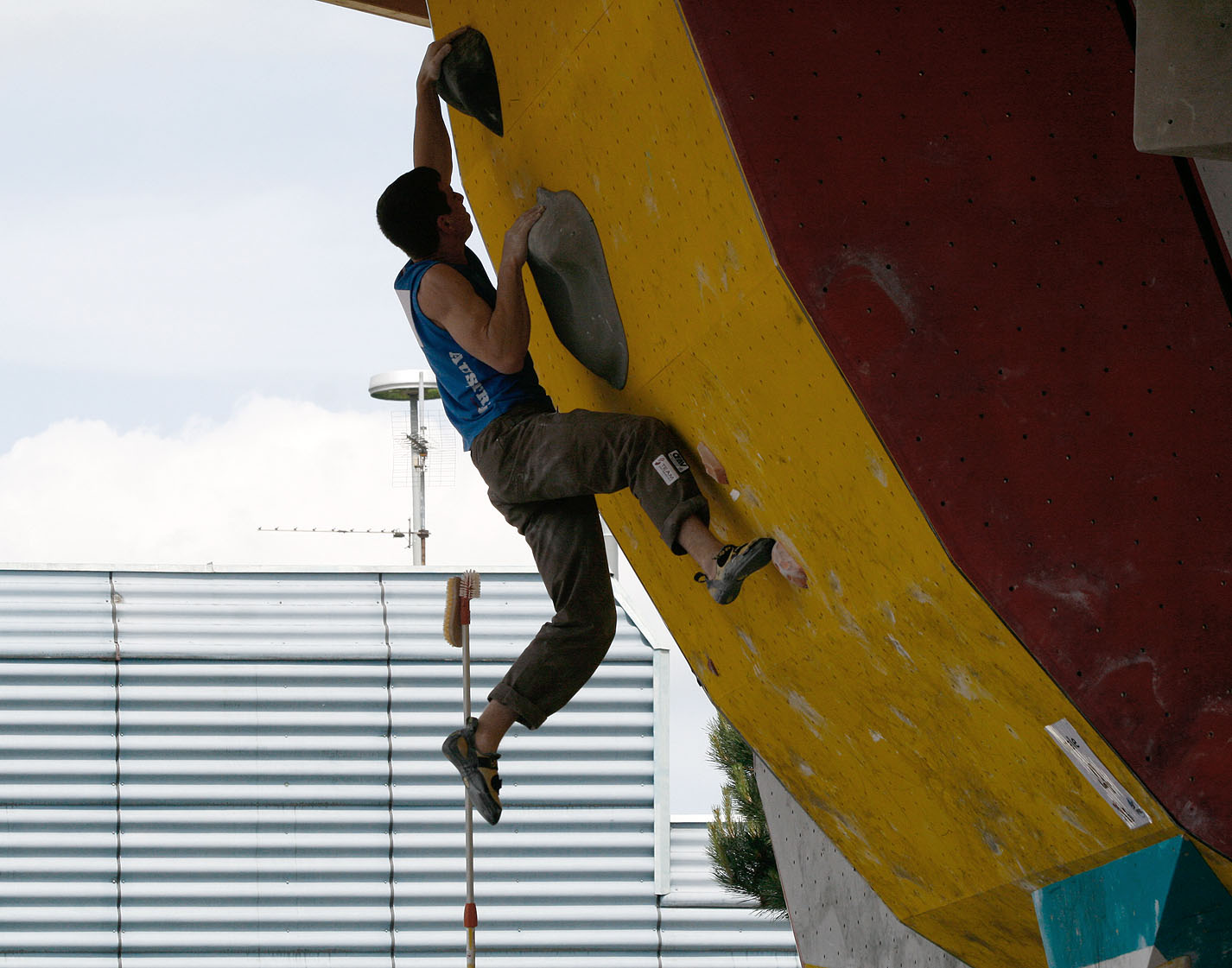 Lukas Ennemoser during the semi-finals at the IFSC Boulder Worldcup Vienna 2010.